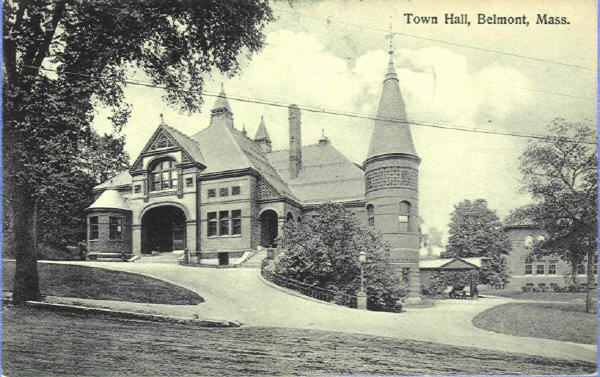 Postcard picture of Town Hall in Belmont. Store Web page states: "Town Hall, Belmont, Massachusetts Postcard, Pub by F M LeBonte, Druggist, Belmont, Mass, [...] PM Cambridge, Mass Aug 31, 1913, One Cent Stamp Intact"